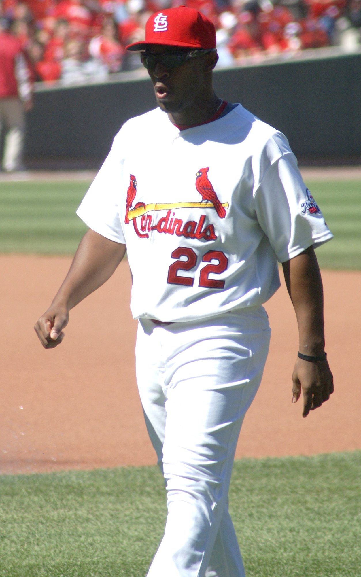 Joe Thurston